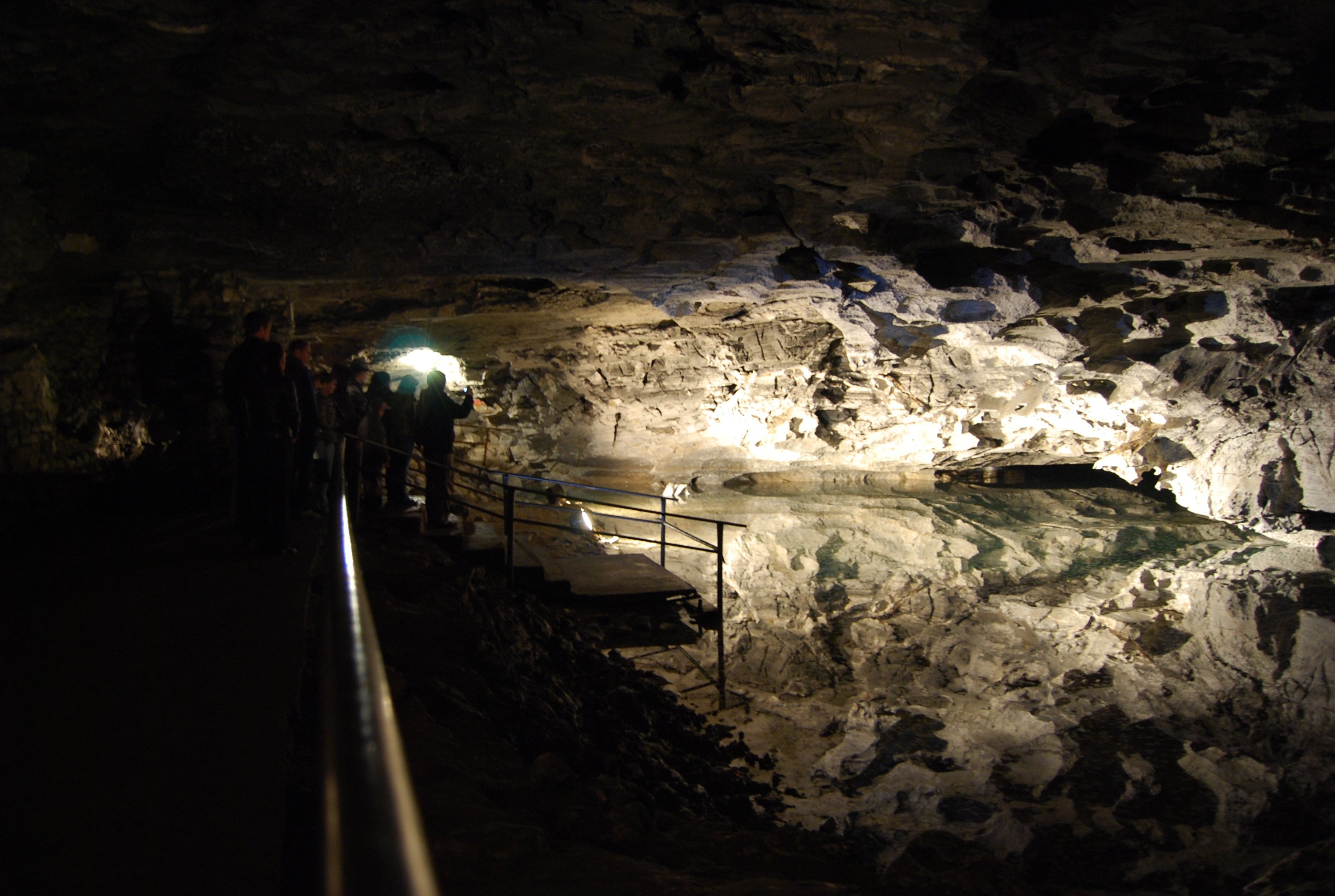 Cave Kungurskaya lake.